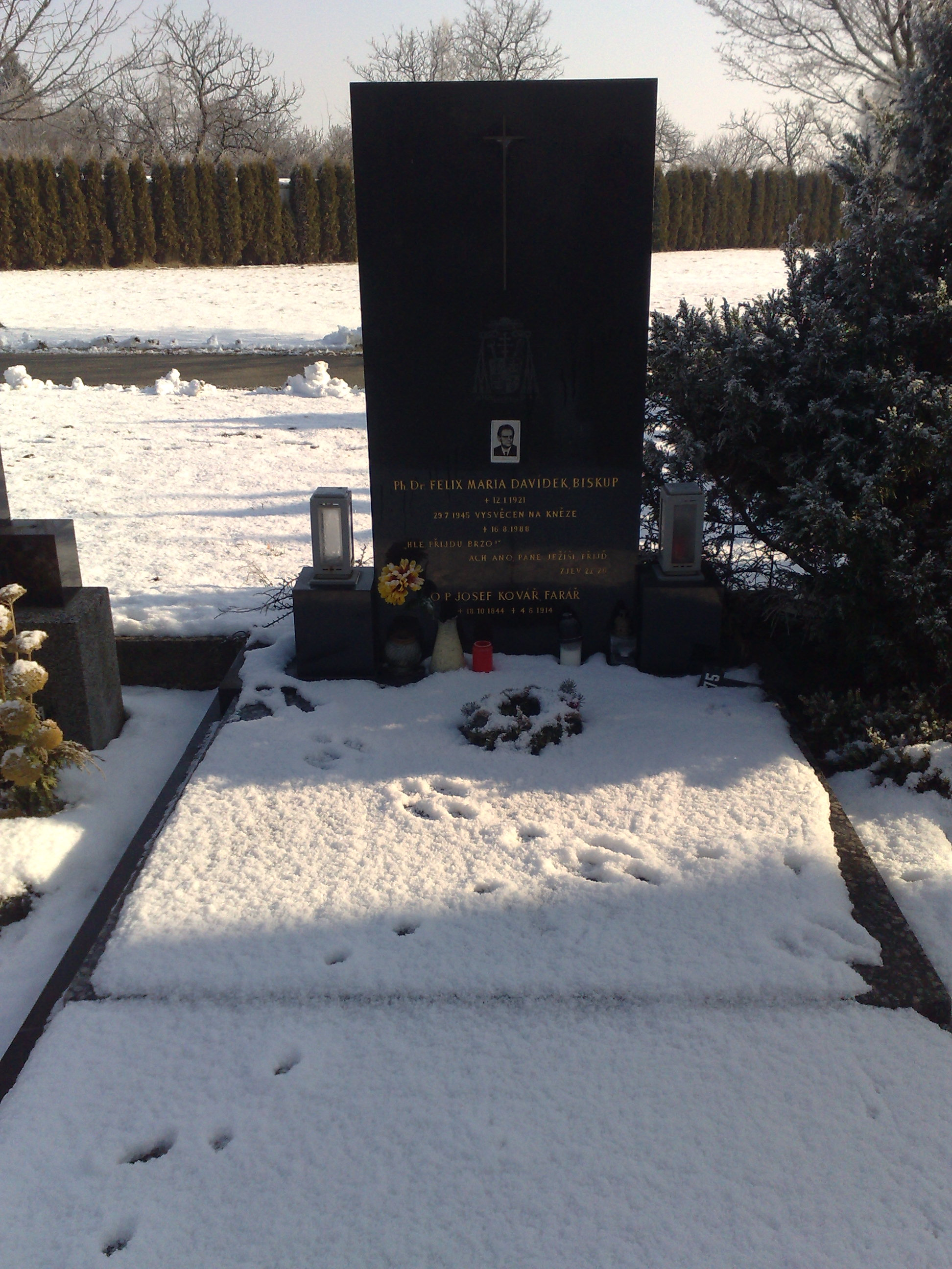 grave of bishop Felix Maria Davidek, cemetery Brno-Turany, CZ